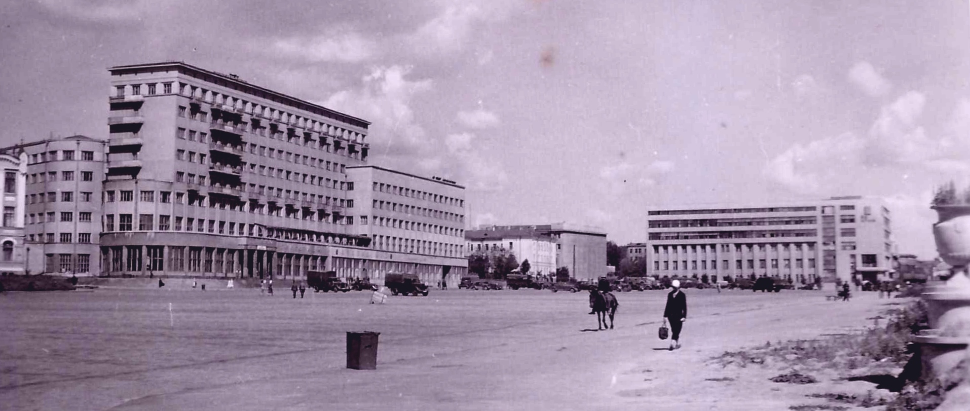 Freedom Square in Charkiw, occupied by German troops